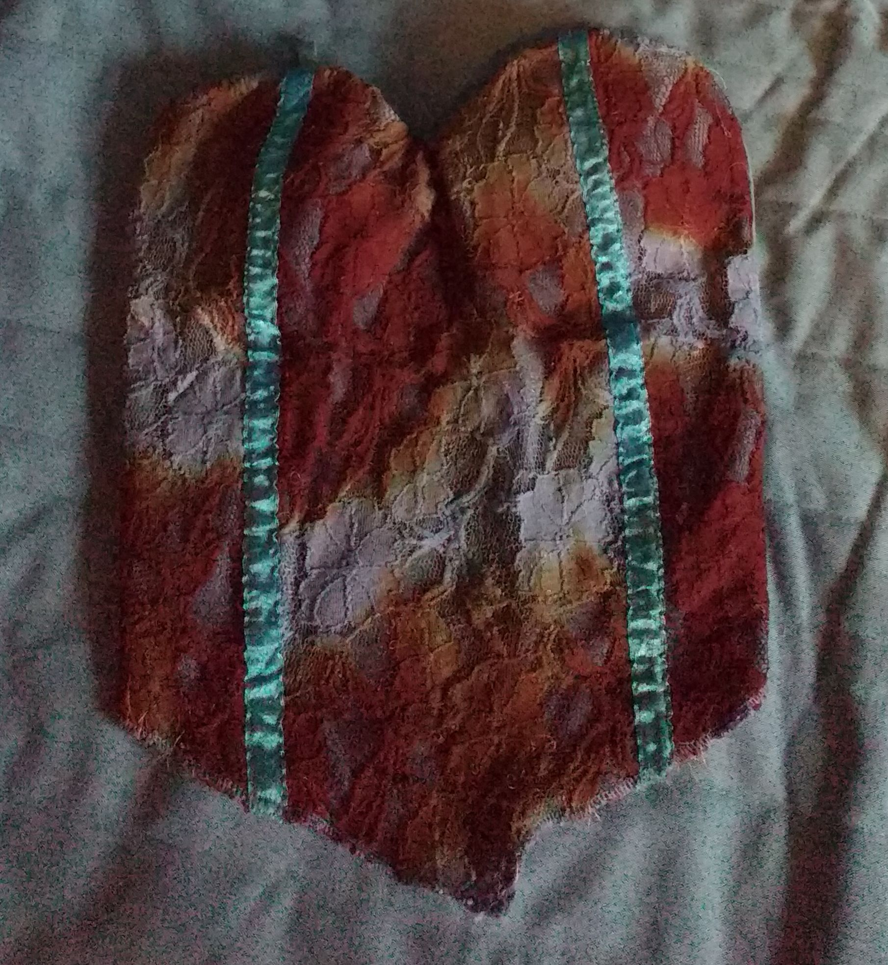 This is a piece of garment called a strapless 'top'.